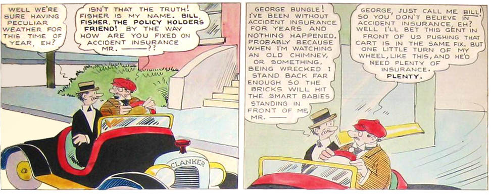 2 photographed panels of a Bungle Family Sunday comic. A search for renewal was done in contributions to periodicals and in artwork for the years 1953 and 1954. There were no listings for the Bungle Family or for Tuthill. There's no evidence that copyright is still claimed on this.